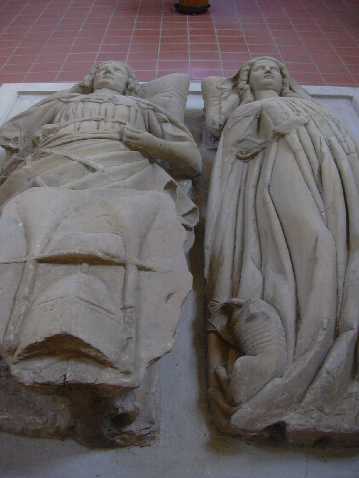 Frauenroth, grave sculptures of former monastery's founders, Burkardroth, Bavaria/Germany